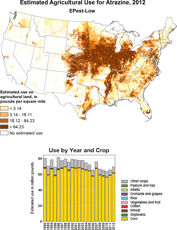 Atrazine map of use, USA, 2012 (estimated)